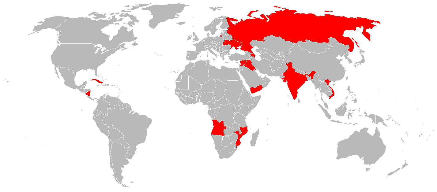 Description World map of operators of the Yevgenya class minesweeper Date4 February 2012SourceOwn work, derivative of image:BlankMap-World.png.AuthorVuhoangsonhnPermission (Reusing this file) All rights released